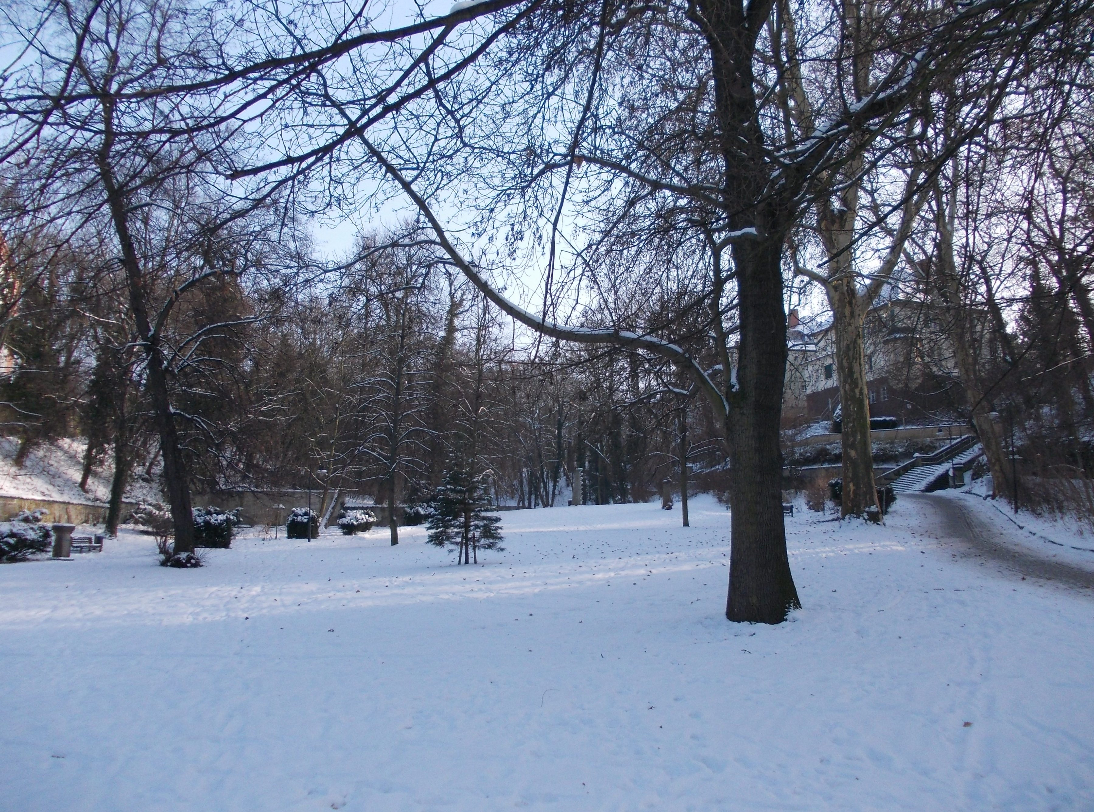 Municipal park in Weissenfels (district of Burgenlandkreis, Saxony-Anhalt) in winter